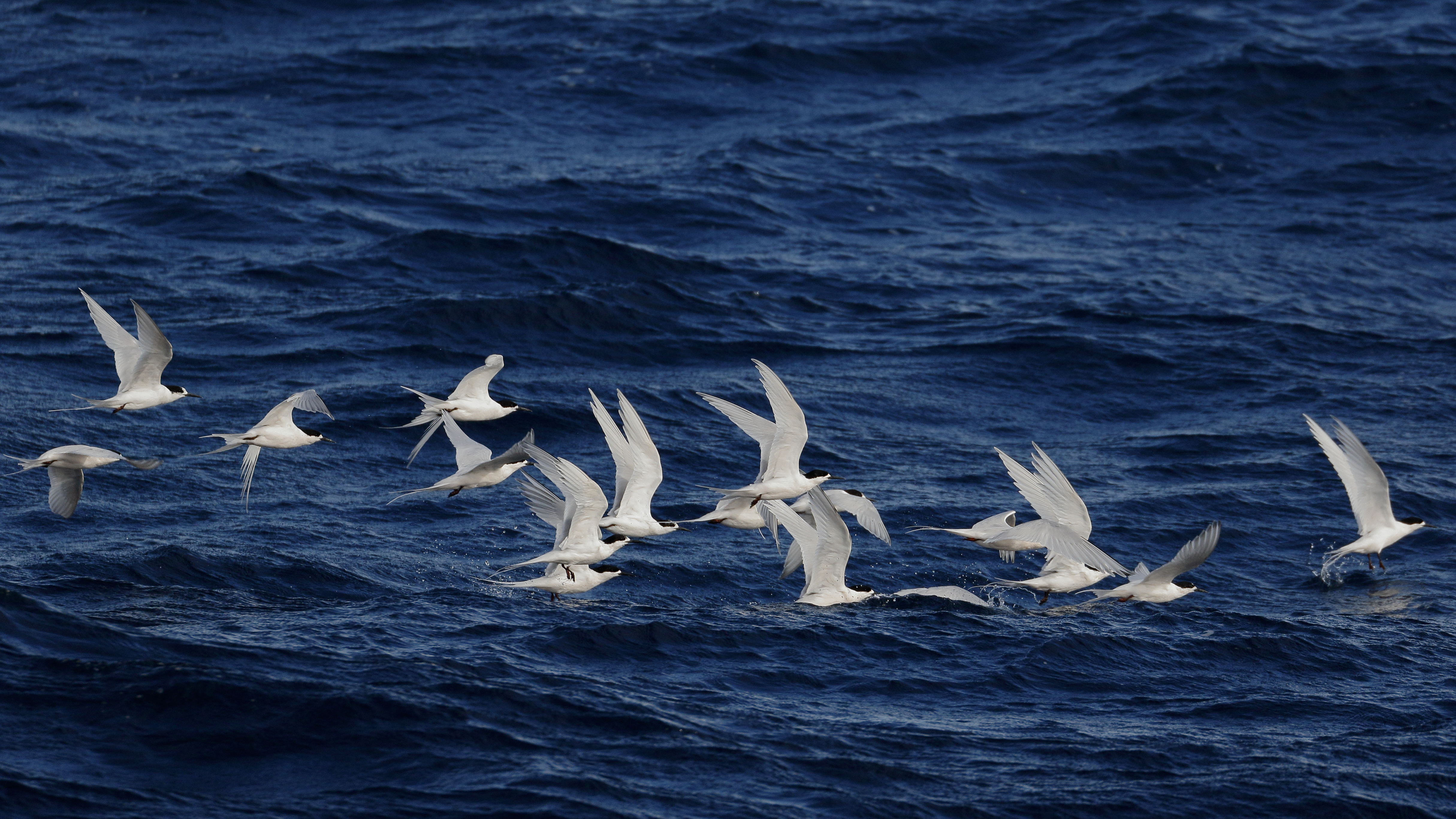 Port Fairy Pelagic. Victoria.